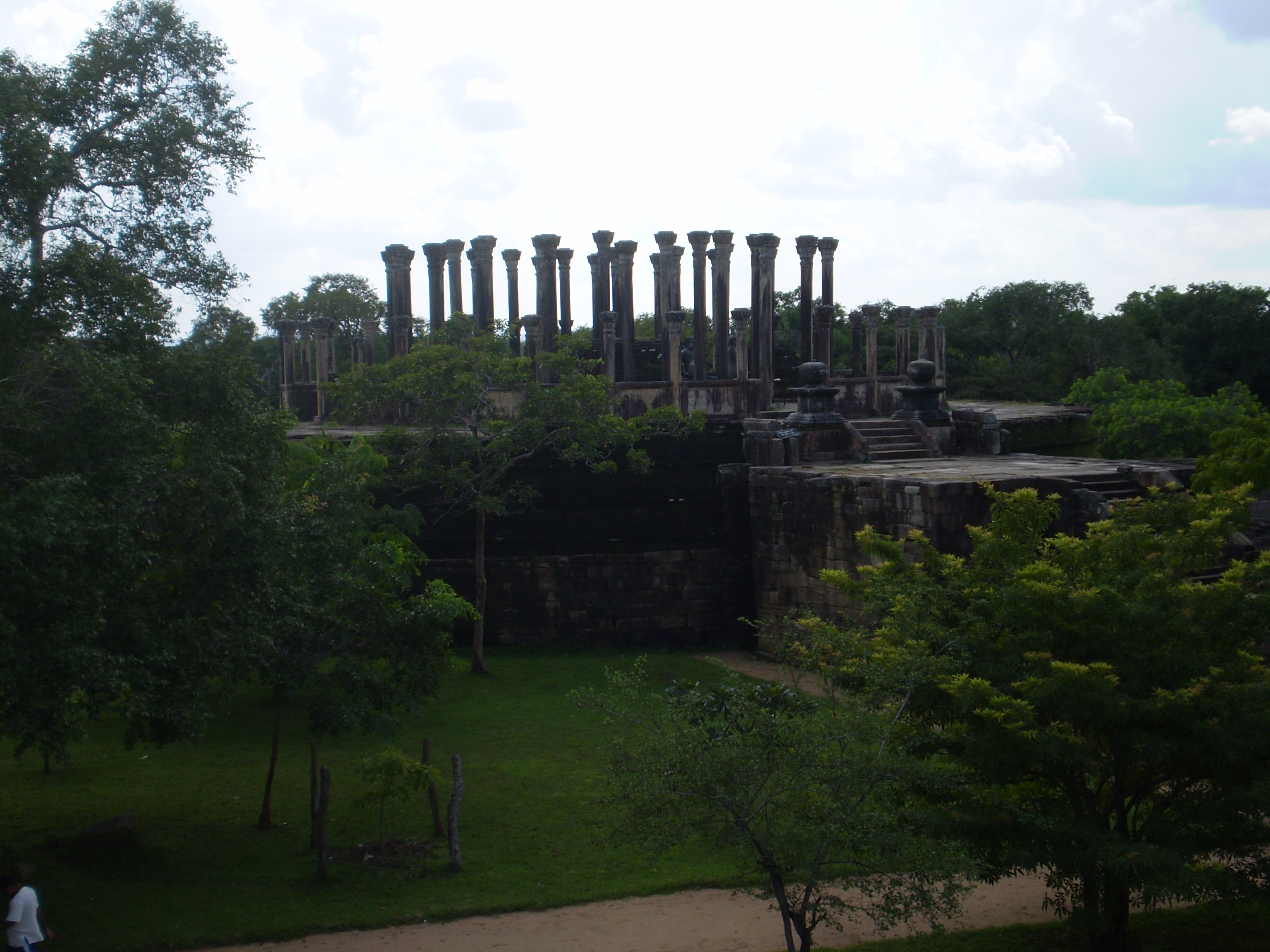 Medirigiriya Watadageya සිංහල: මැදිරිගිරිය වටදාගෙය